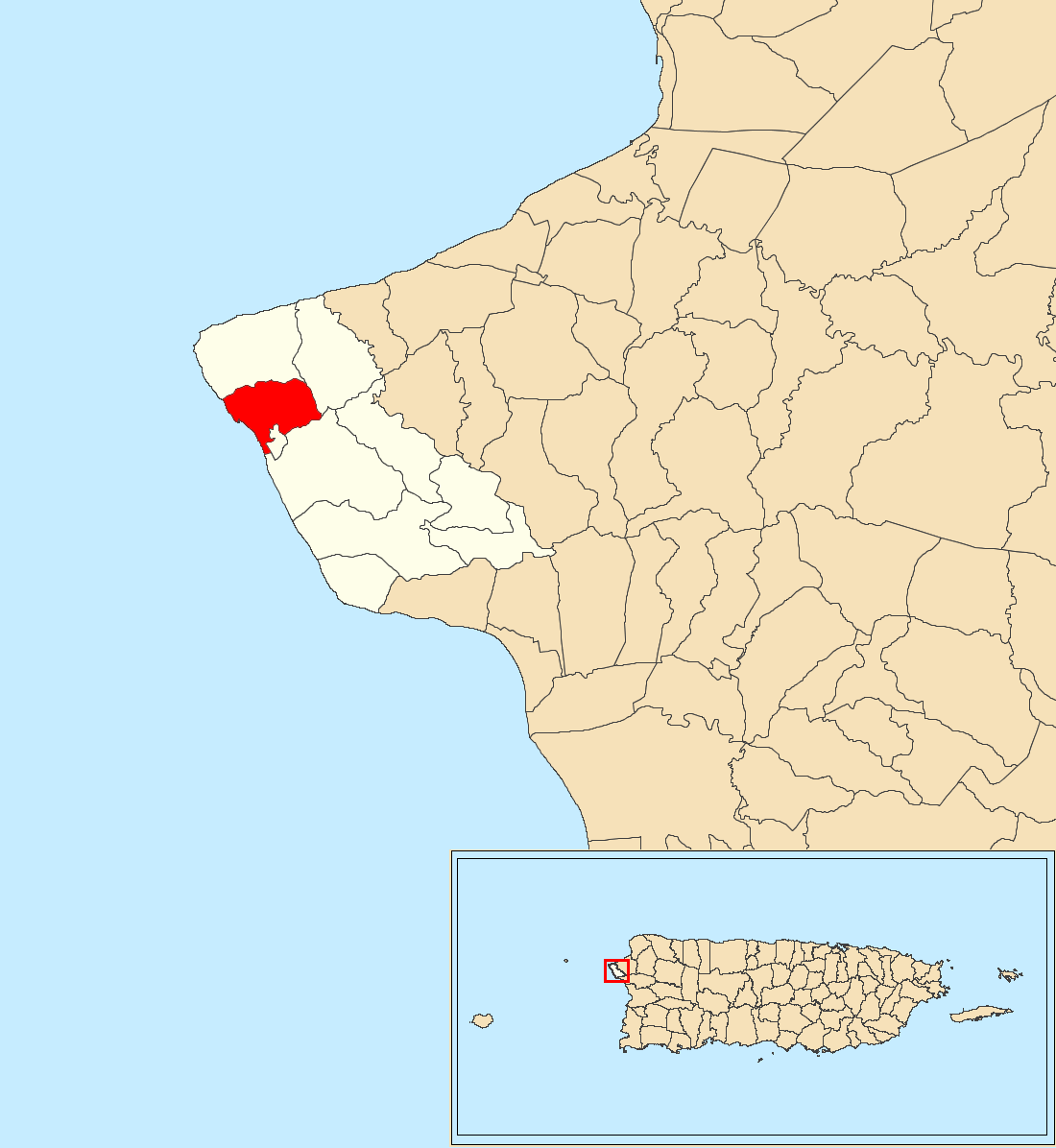 Ensenada, Rincón, Puerto Rico locator map